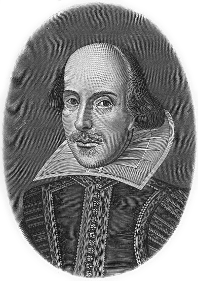 William Shakespeare (1564-1616)